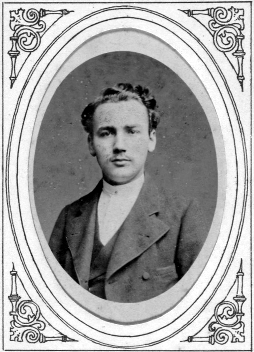 Plate 12 Photograph album of German and Austrian scientists. Carl Weeber, Pforzheim; Friedrich von Hellwald, Cannstadt; Dr. Adolf Richter, Pforzheim; Buhrke, Magdeburg; Dr. Ahrendts, Schmiedeberg; W. Breitenbach, Unna; Rinke, Düsseldorf (Dusseldorf); A. Schwartz, Oldenburg; N. Tafel, Adrianopel (Adrianople).